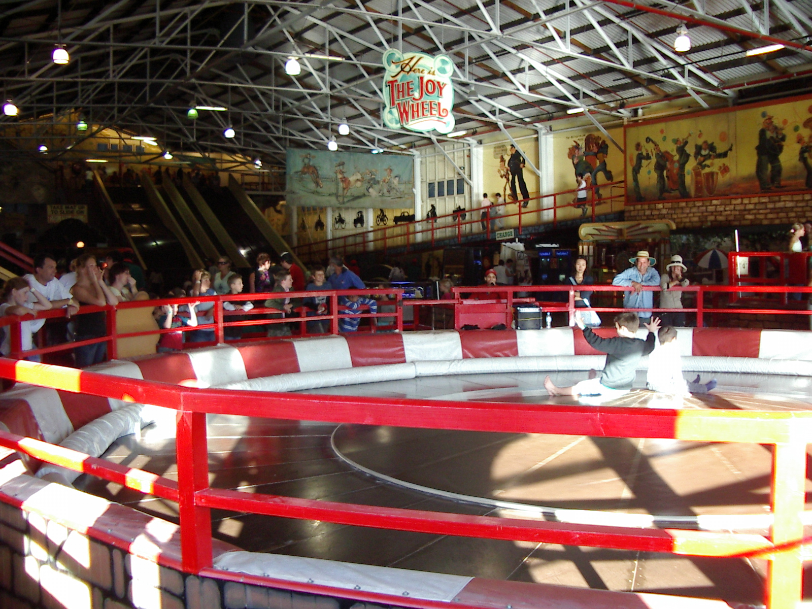 Photograph displaying the interior of Coney Island, an area of Luna Park Sydney.